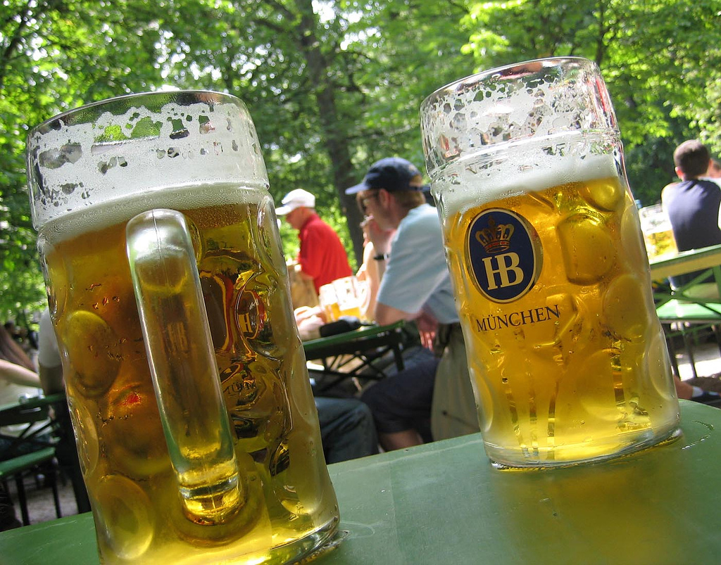 Beer Biergarten, Munich, Englischer Garten, Munich, Germany